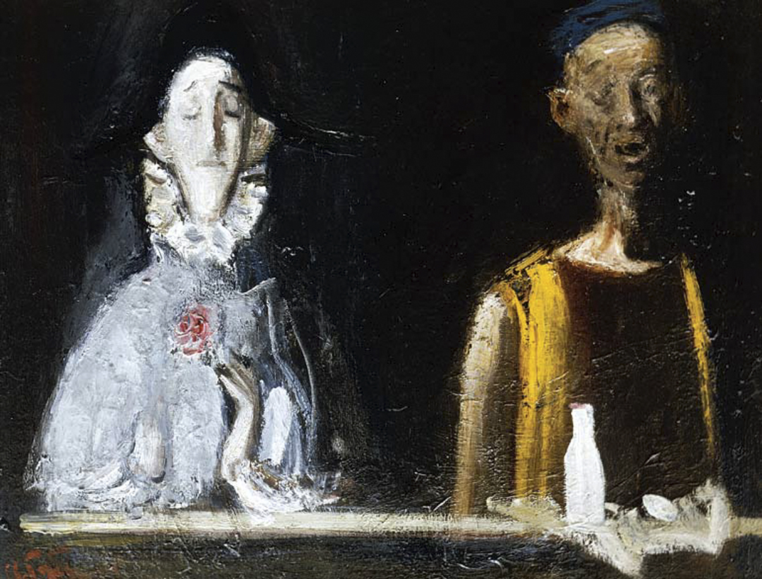 Igor Gubskiy artwork - Art and life. 1985. Oil on canvas. Sold at Christie’s auction in 1990.